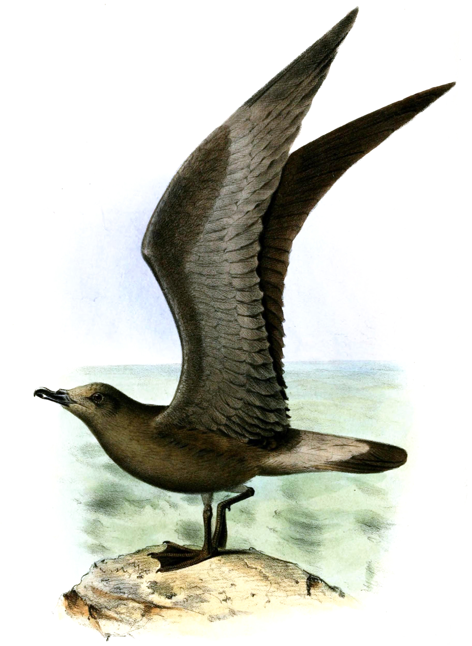 Jamaican Petrel, adult